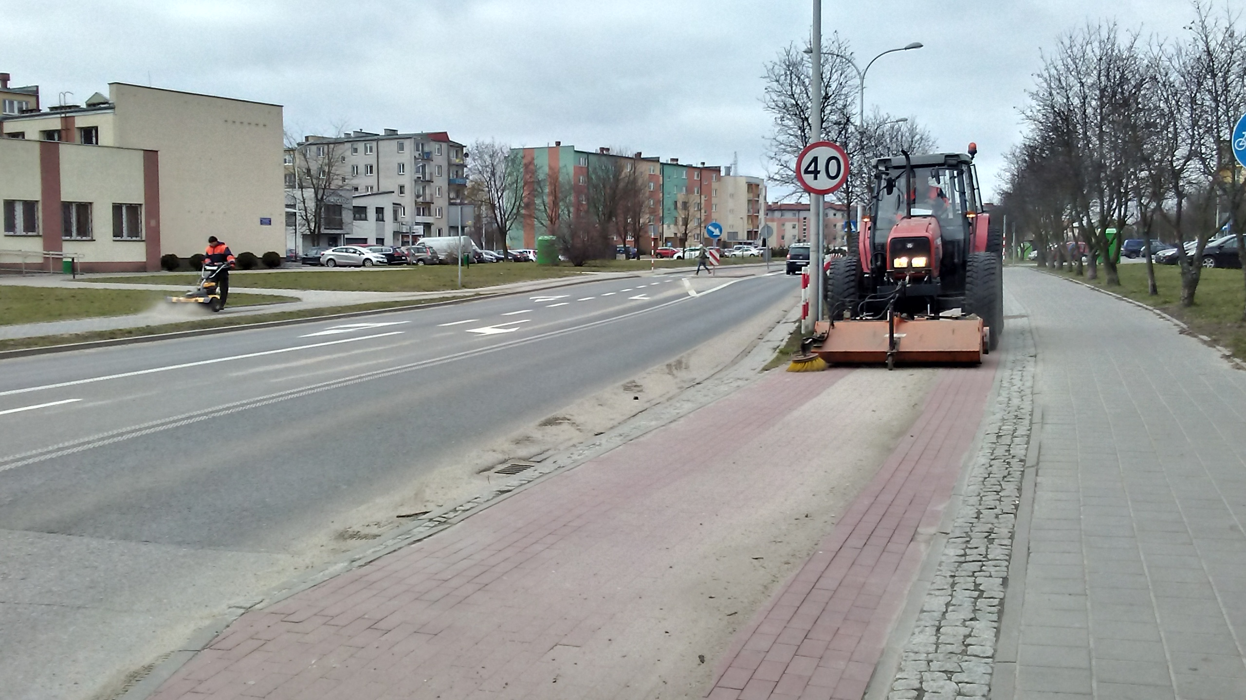 Spring cleaning in Tomaszów Mazowiecki. Wanda Panfil Street.